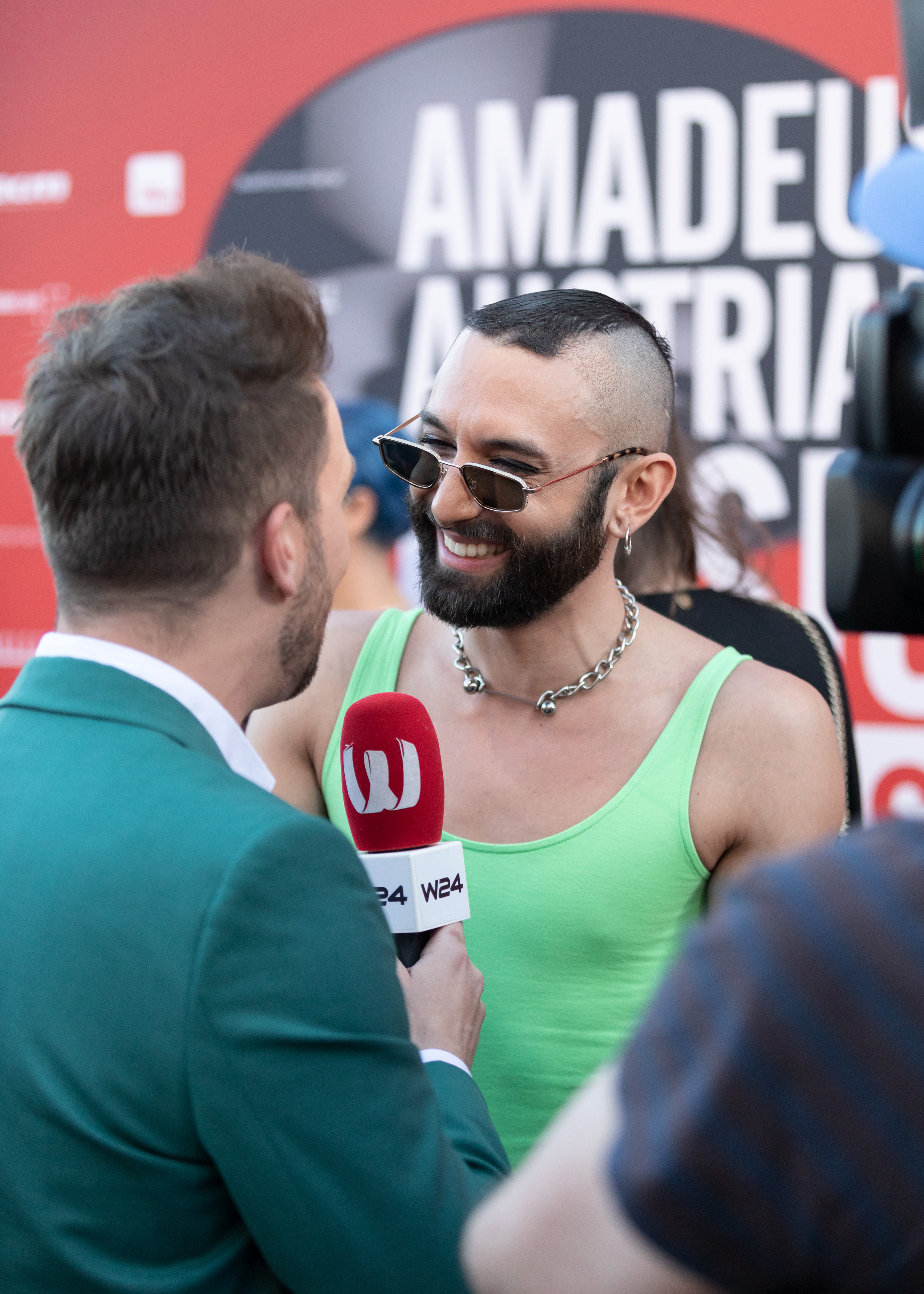 Conchita/Wurst at the Amadeus Austrian Music Award 2019 at Volkstheater in Vienna.